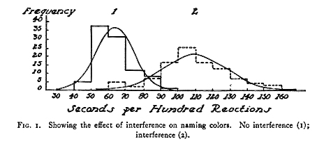 Original figure 1 from experiment 2 of the article "Studies of interference in serial verbal reactions" (1935) Stroop J.R. Journal of Experimental Psychology 18: 643-622; the original article that described the Stroop effect in English. The diagram shows that it takes less time to name colors of squares (no conflict) than saying the ink color of a when what is written a different color (conflict)